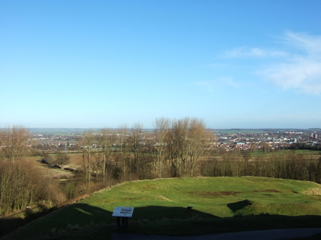 View from Stafford Castle Looking across the inner bailey and over the ditch, now filled with trees, and on down towards the Castletown area of Stafford itself. The original castle was built in wood, and it was badly knocked about after the Civil War when it was used to housed prisoners. Built by the Normans on a hill above the town this was definitely a location for keeping an eye on the peasantry below!